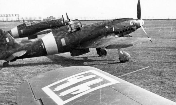 M.C. 205 Veltro of A.N.R. 1st Fighter Squadron